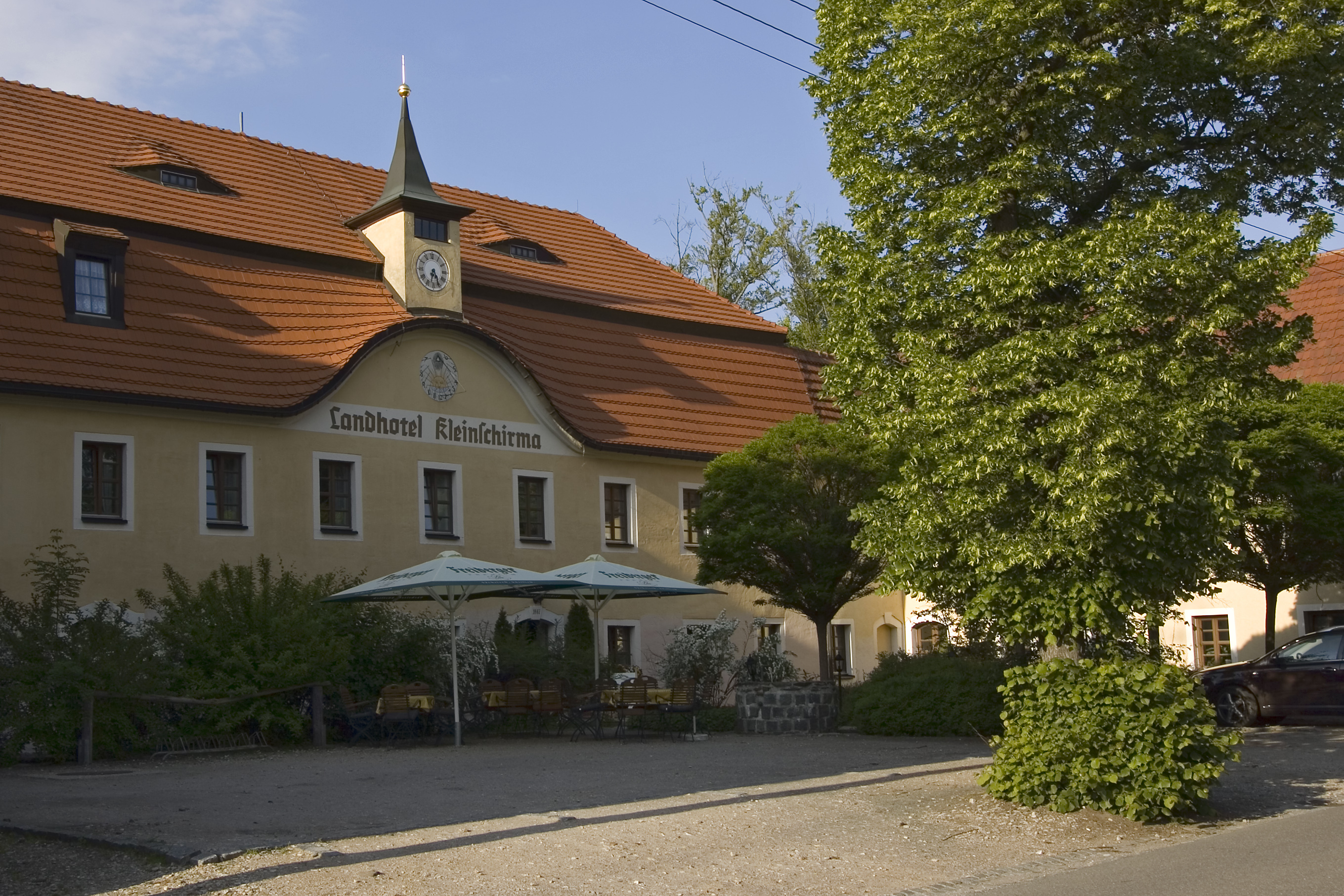 Kleinschirma (part of Oberschöna, Saxony), hotel